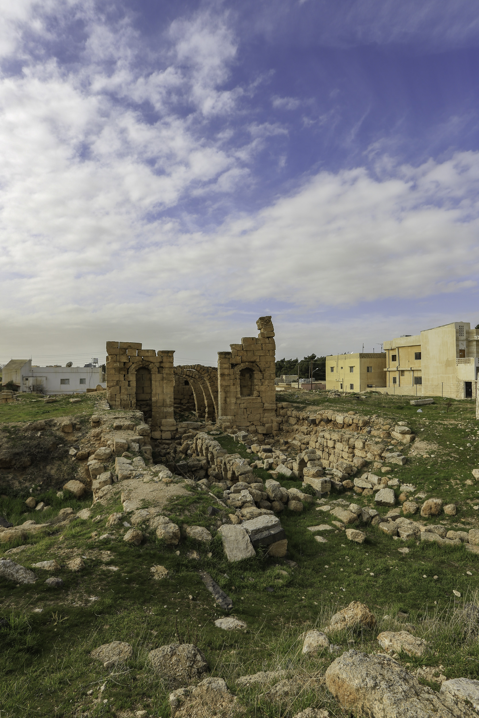 Rabba (Roman and Byzantine Ruins)